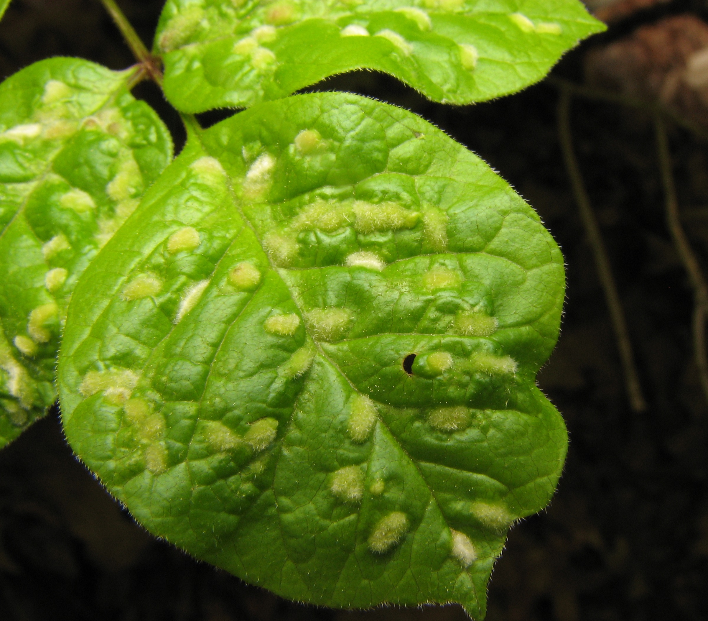 Eriophyidae gall mite, Aceria fraxini. Size: Less than 2mm. Rocky Gap State Park, Allegany County, Maryland, USA.